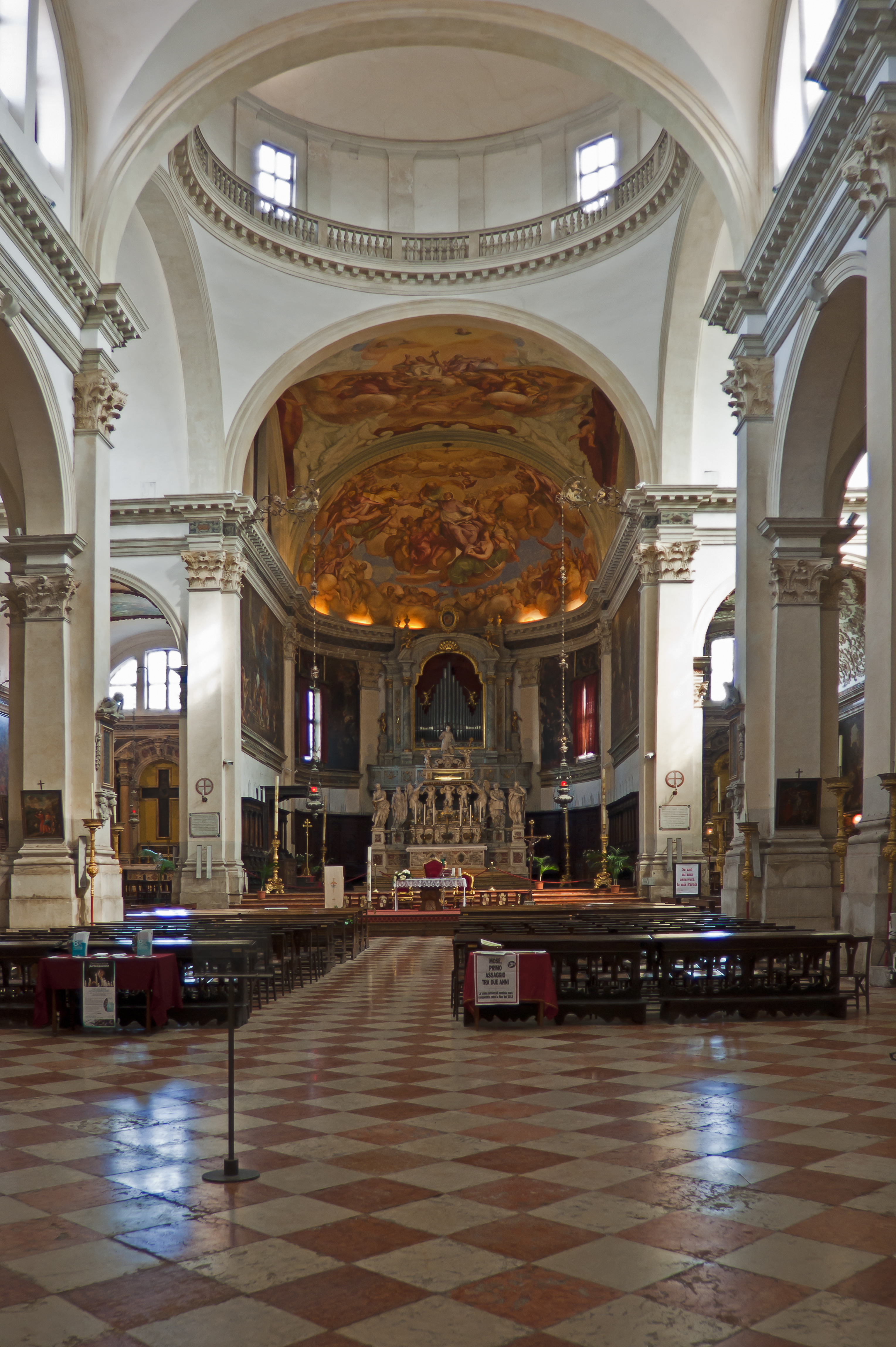 Church of San Pietro di Castello, Venice; The transept and the choir